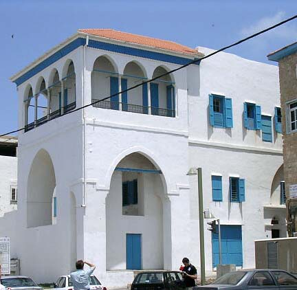 House of `Abbúd